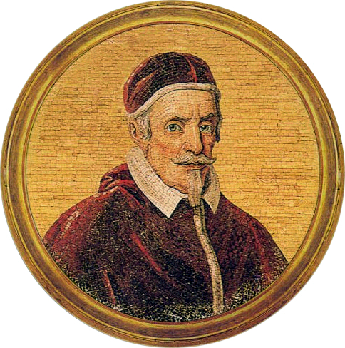 Portrait of Pope Clement X